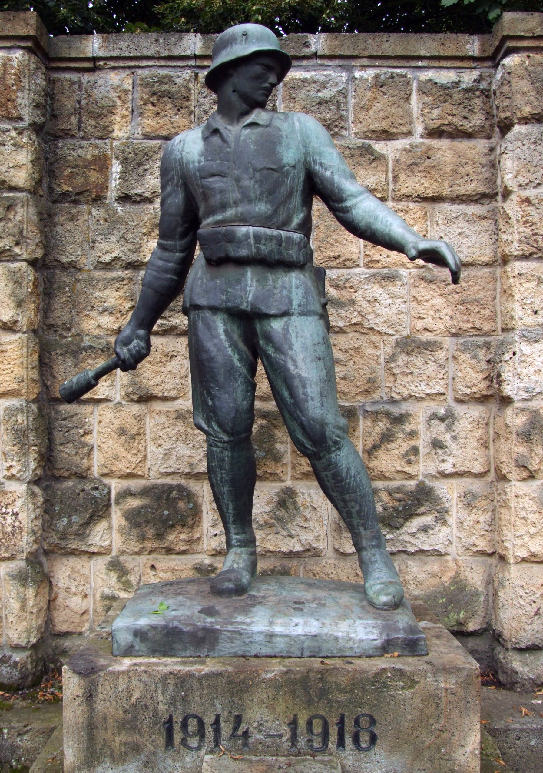 Sárospatak, Hungary - WWI memorial Ślůnski: Dynkmal ku pamjyńći mjyszkańcůw, kerzy padli we Wjelgyj Wojńe. Mjasto Sárospatak, MadźaryGránátvető avagy Hősi emlékmű (Medgyessy Ferenc, 1935, bronz, I és II. világháborús) - Borsod-Abaúj-Zemplén megye, Sárospatak, Rákóczi Ferenc utca, a Református Kollégiummal szemben áll, bal kéz felől.